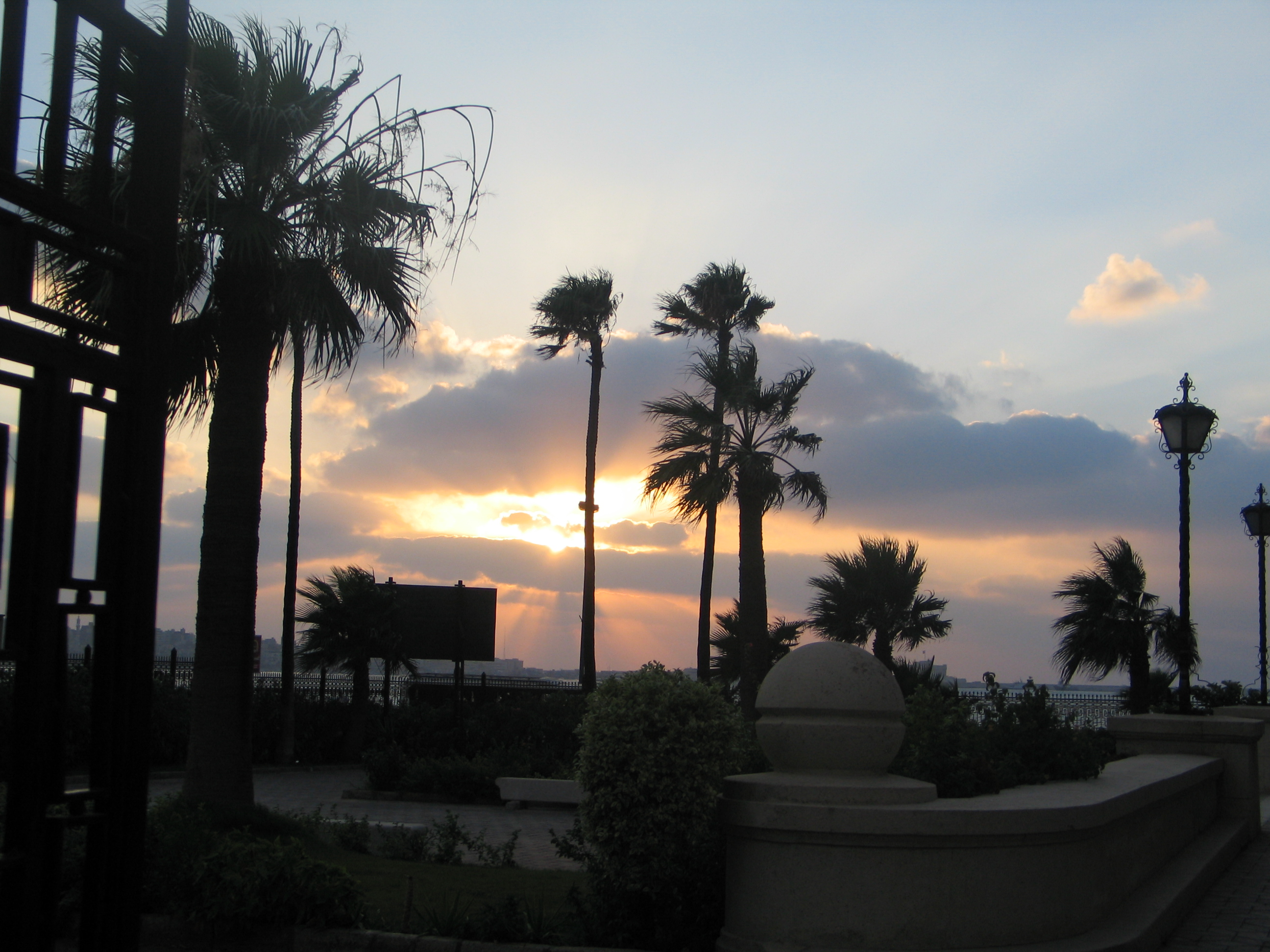 Alexandria in Sunset